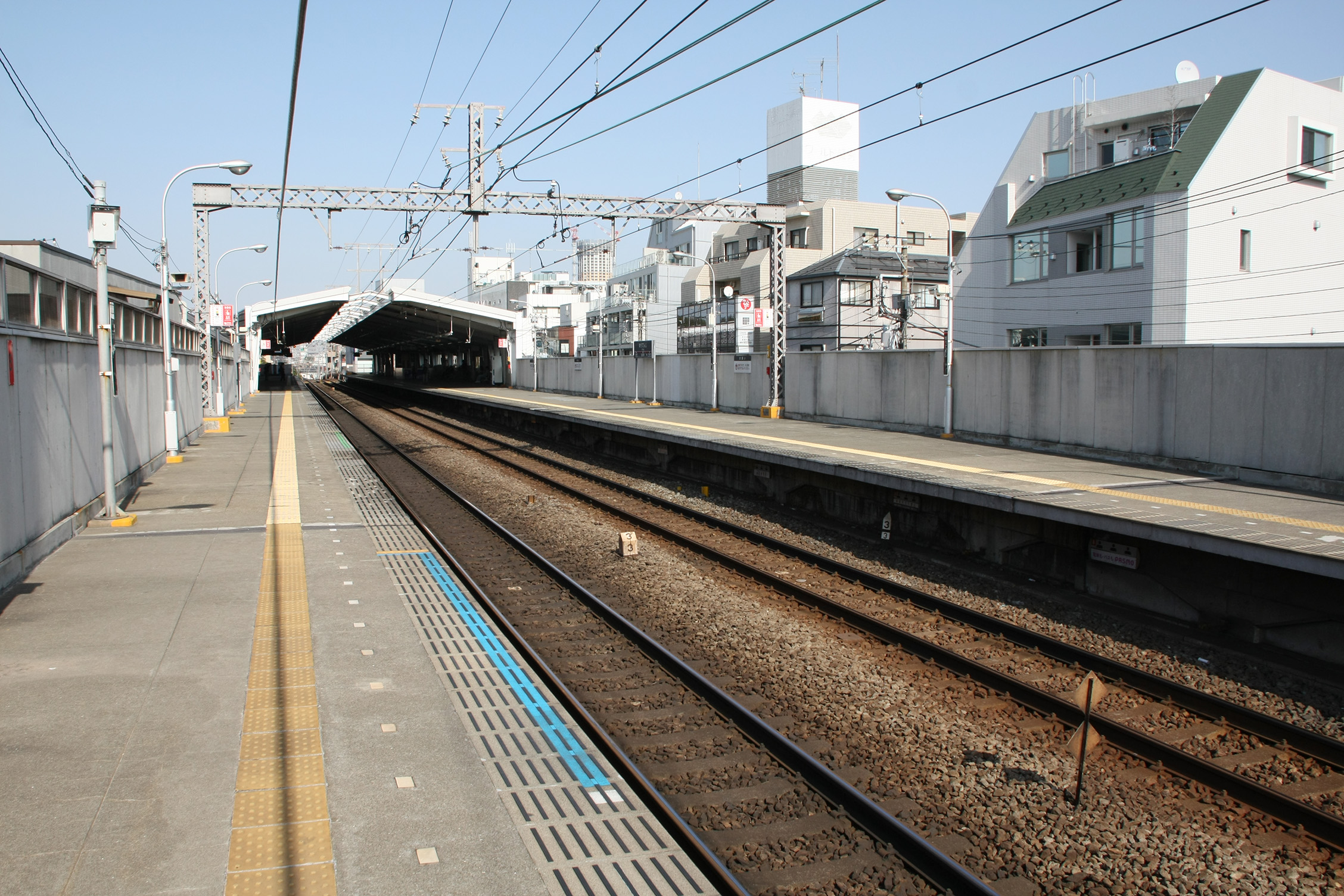 The platforms at Yutenji Station on the Tokyu Toyoko Line before rebuilding